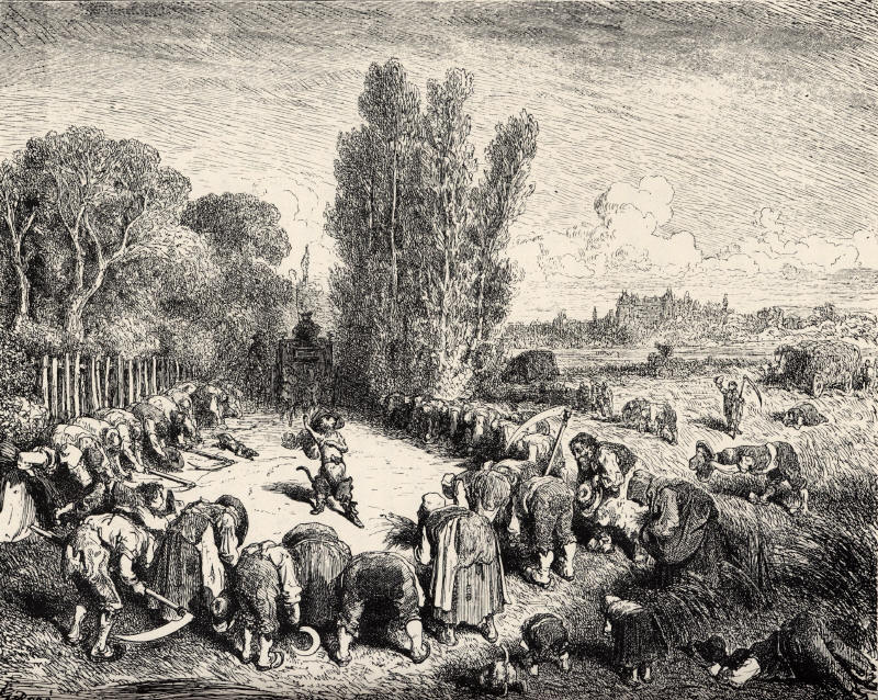 Illustration for Charles Perrault's Le Maître chat ou le chat botté from Histoires ou Contes du Temps passé: Les Contes de ma Mère l'Oye(1697). Gustave Doré's illustrations appear in an 1867 edition entitled Les Contes de Perrault. Second of four engravings